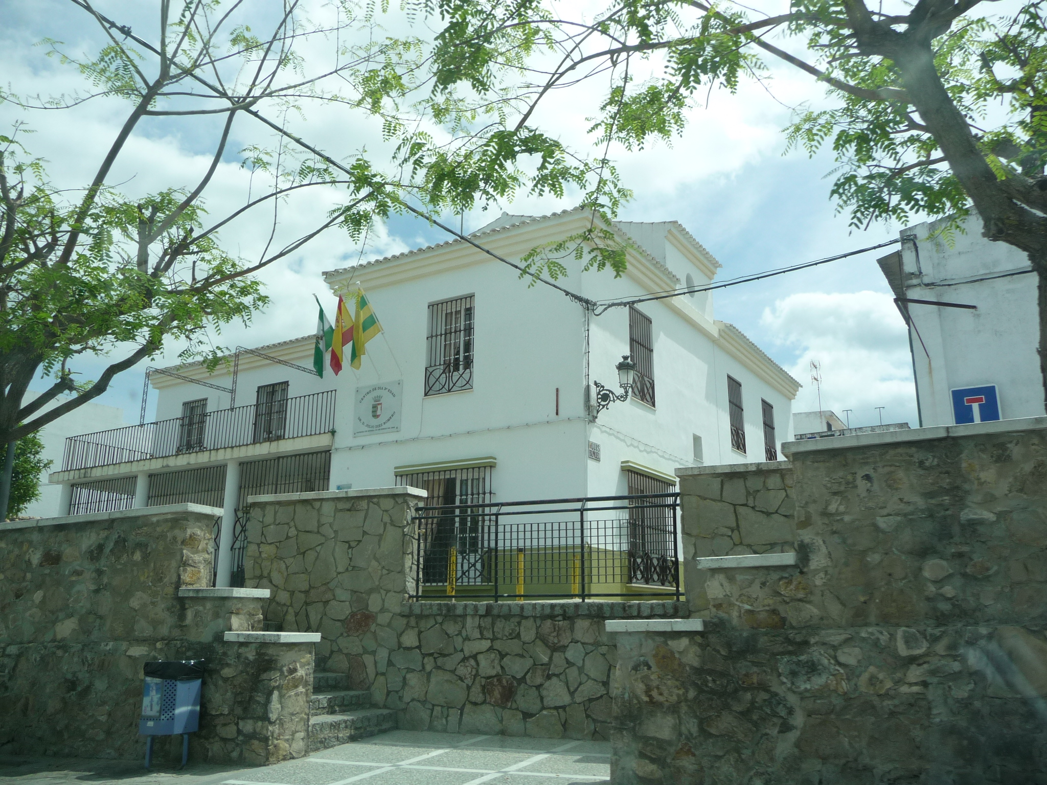 (Paterna de Rivera)